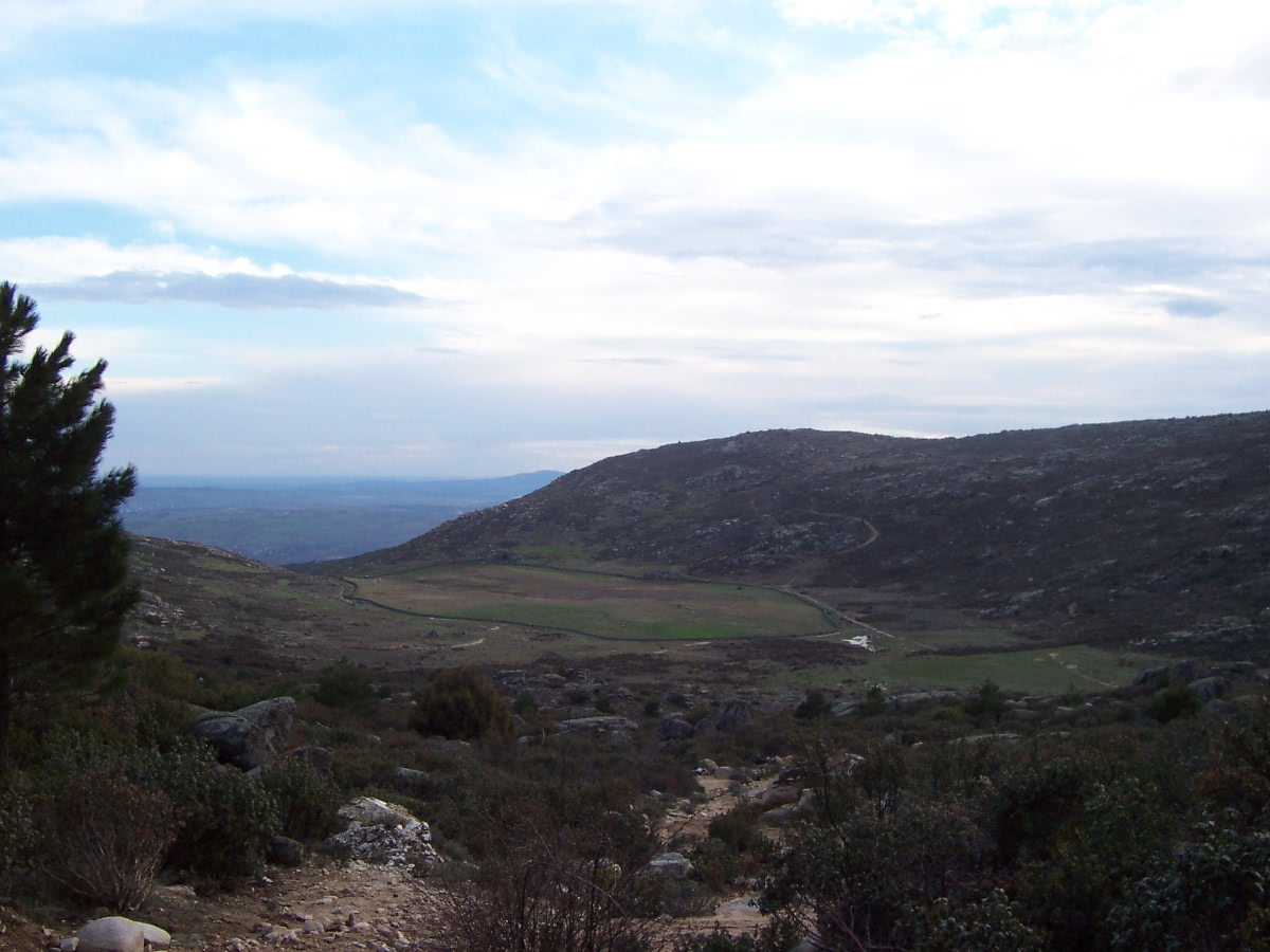 El Badén (a periglacial valley) in El Pendón mountain (Bustarviejo, Madrid).